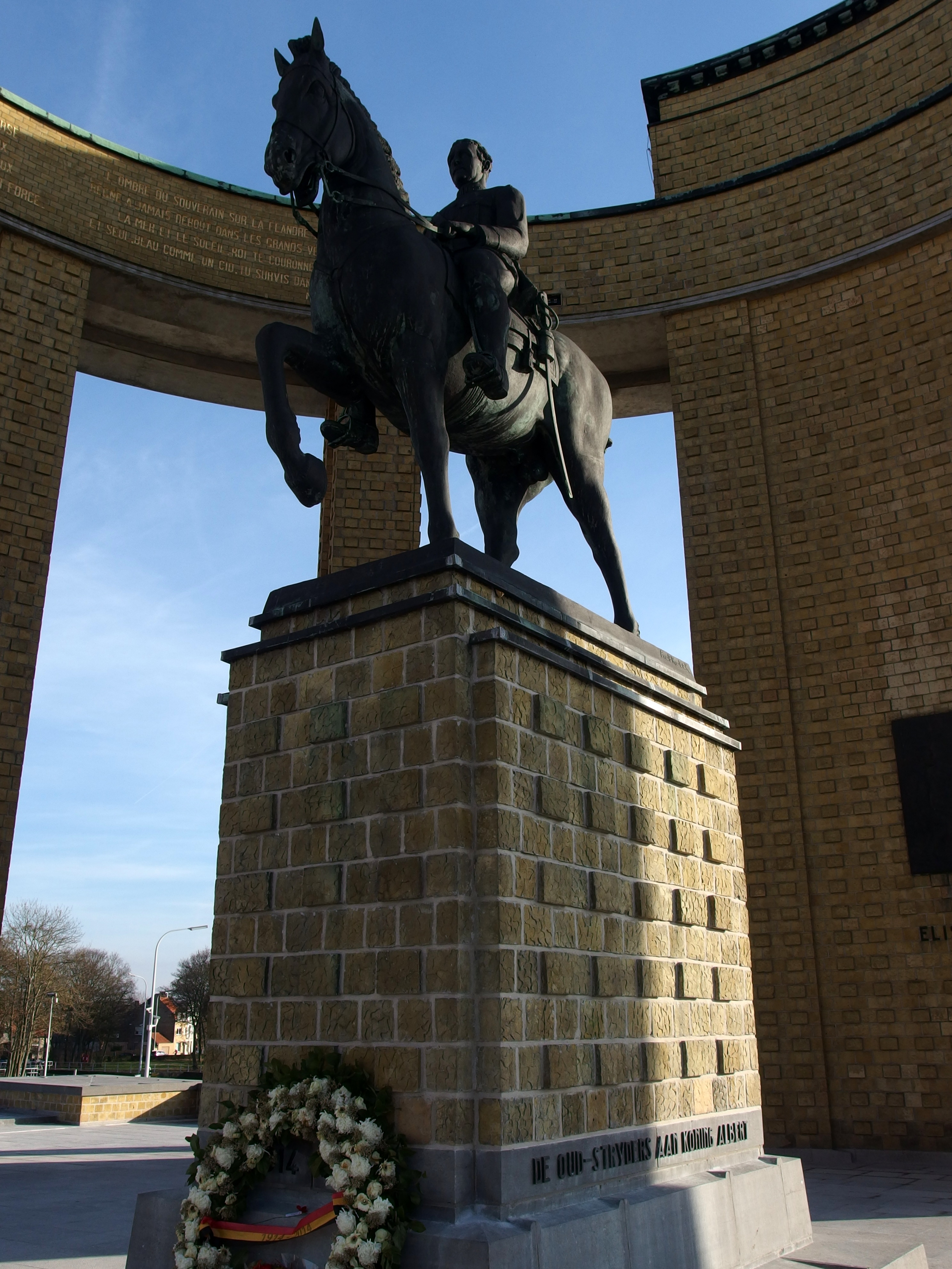 2014-11-11 at King Albert I Monument in Nieuwpoort.